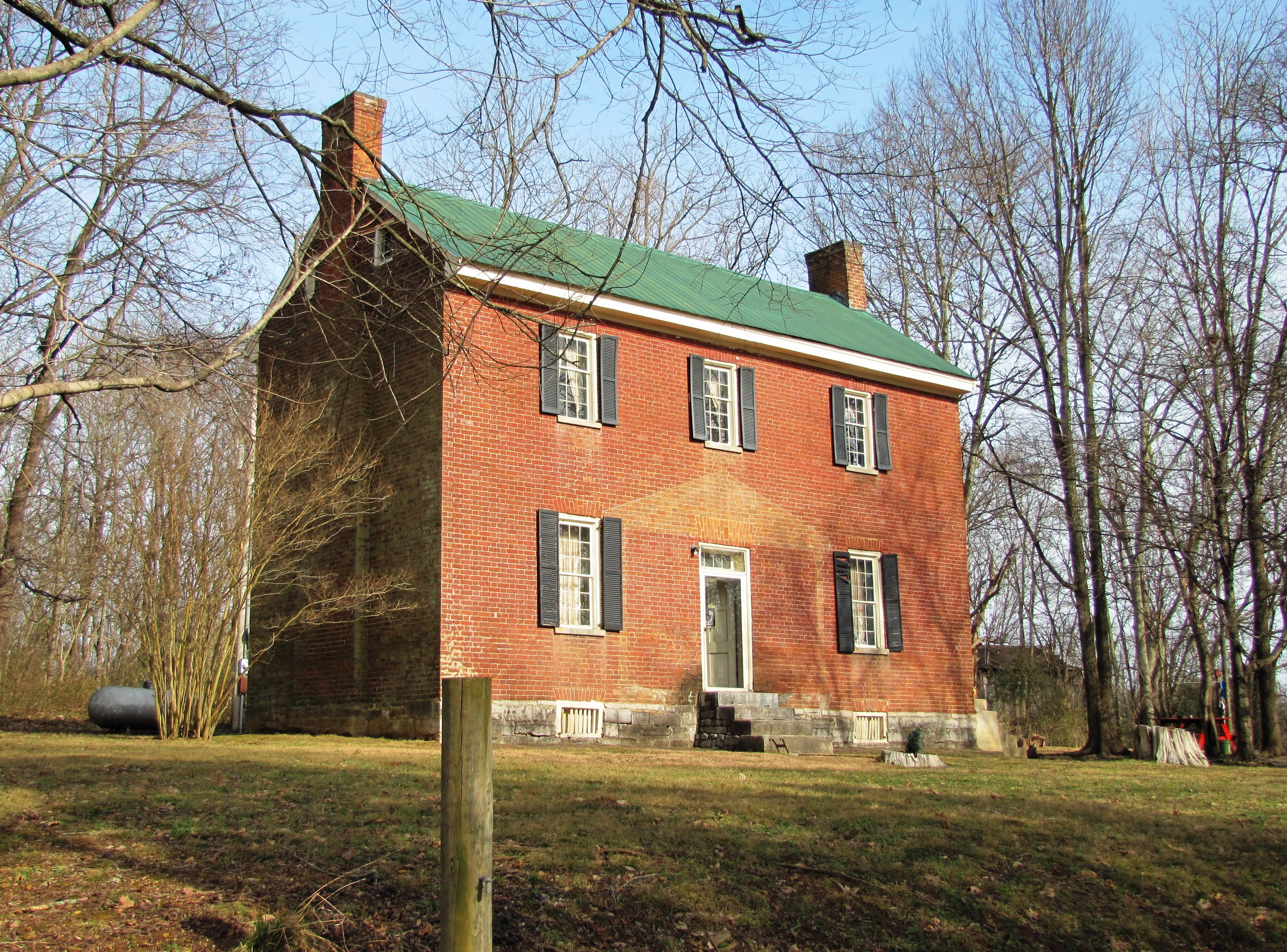 Oaklawn, the home of Captain James Bradley, a Revolutionary War and War of 1812 veteran, in Dixon Springs, Tennessee, USA. The house's exterior contains most of its original details (the roof was originally shingled). Special thanks to Andy Mullins and Richard Evans, the house's caretakers, for filling me in on the various details of the house.